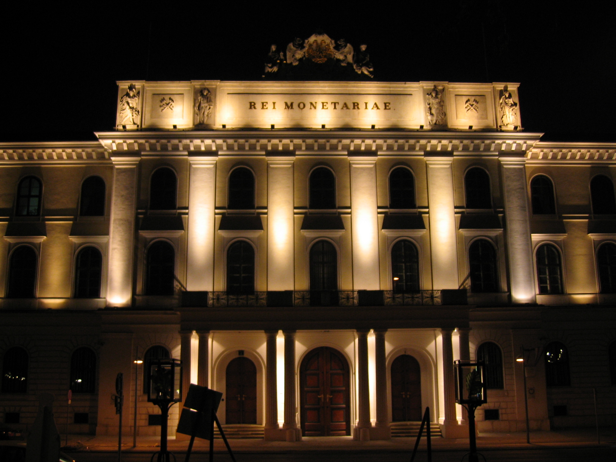 Main Building of the Münze Österreich AG by night.